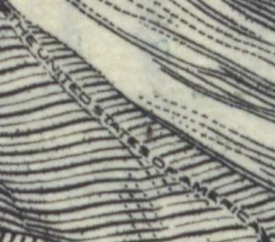 United States of America microprint